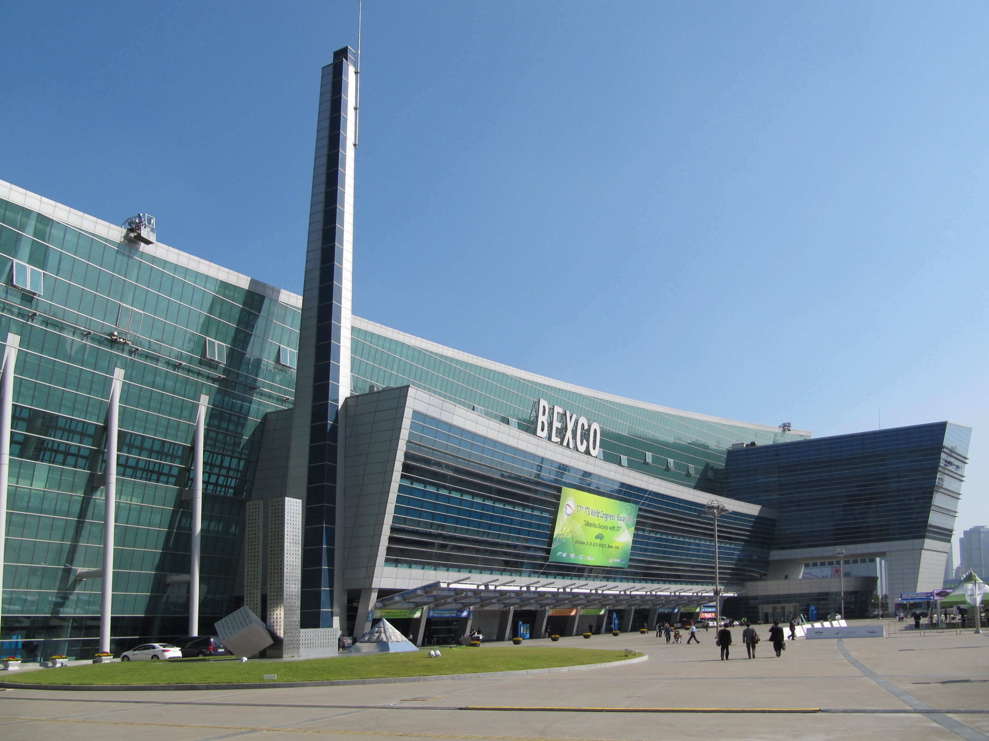 BEXCO